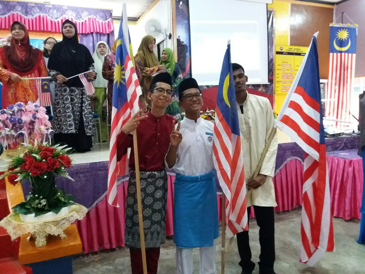 Pelancaran Merdeka 4